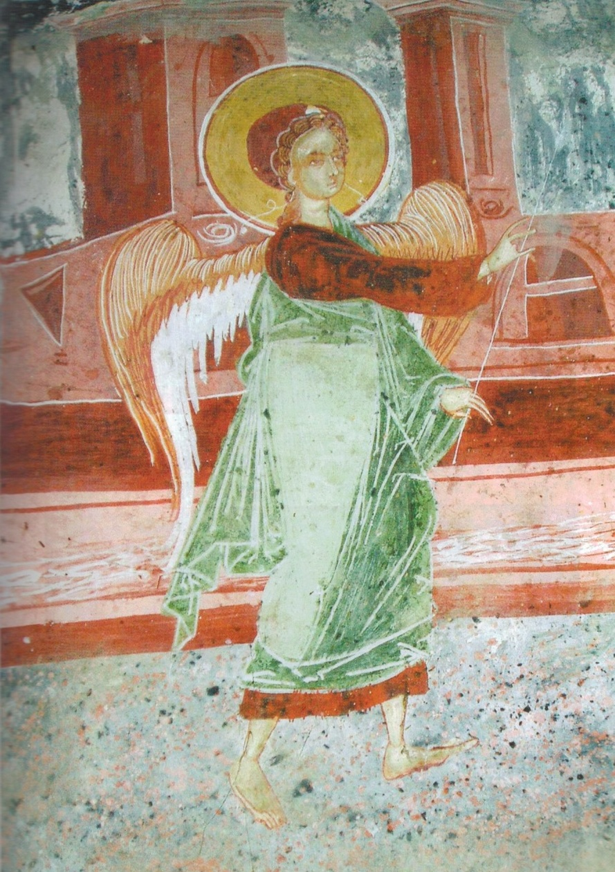 Archangel Michael Church in Benche, Archangel Gabriel Fresco